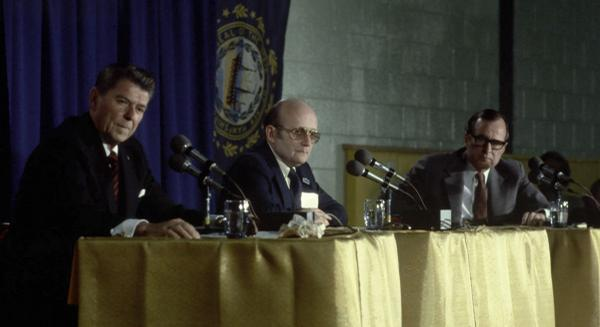 Republican candidates Ronald Reagan, left, and George H.W. Bush, right, take part in a debate in Nashua, N.H., moderated by John Breen in 1980.